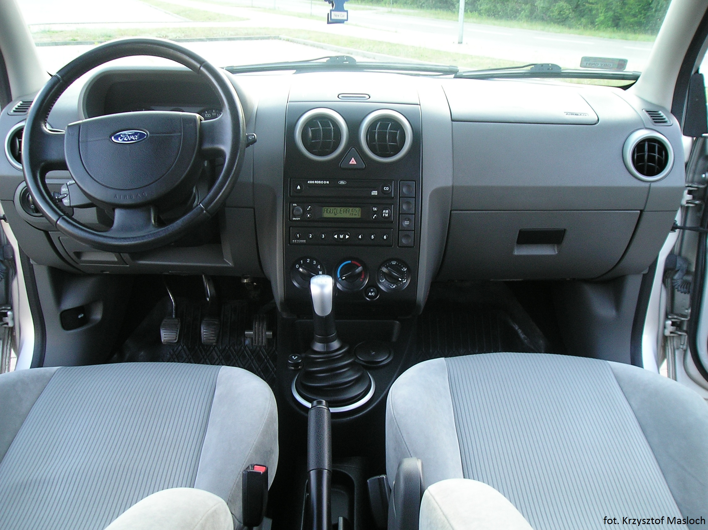 European Ford Fusion Elegance, 2003, first generation 2002-2005 Interior